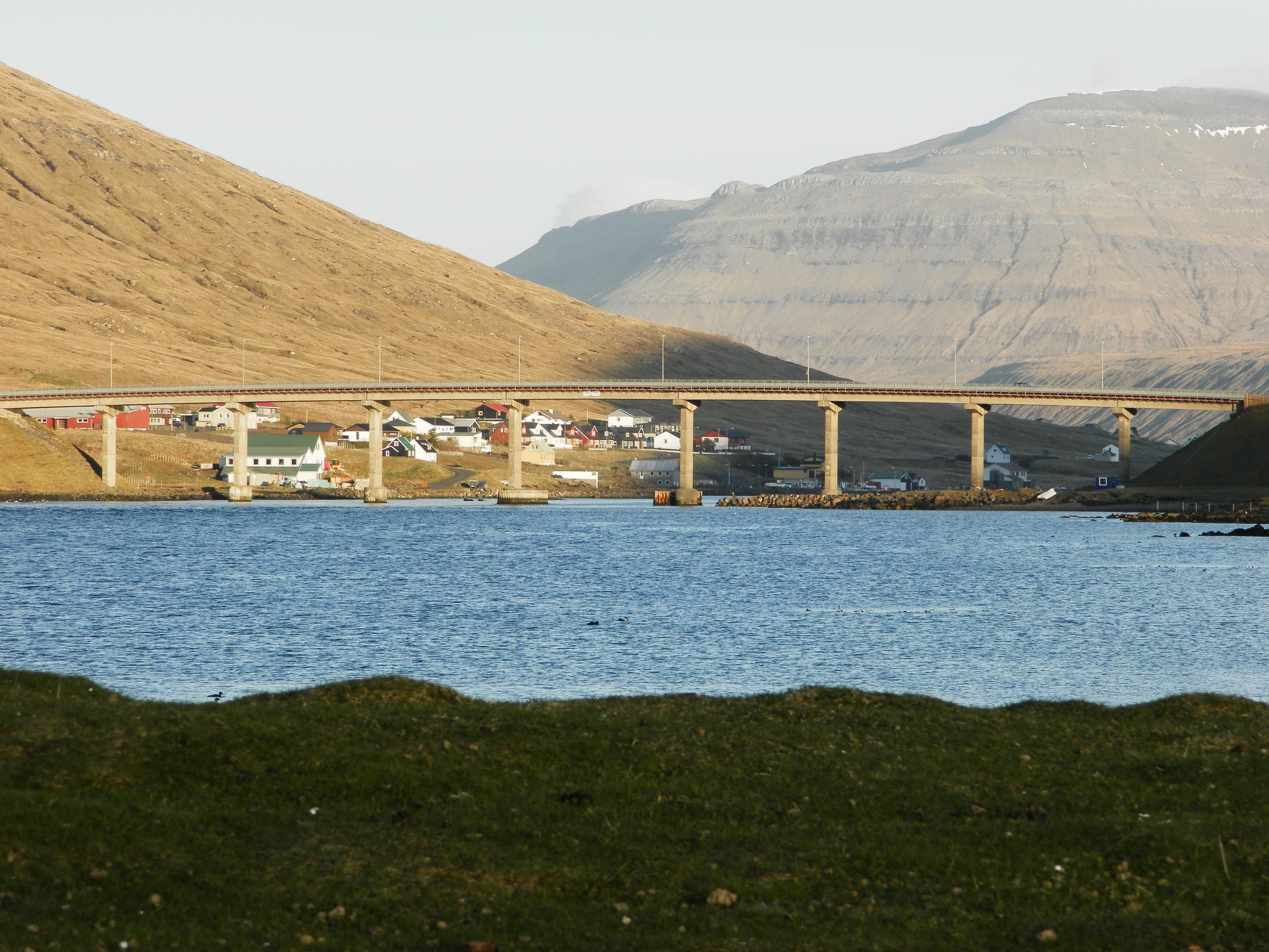 The Streymin Bridge was built in 1973 and has been the only road between the two islands. Earlier there was a ferry connection also, and in 2014 the Faroese parliament decided to make a subsea tunnel between these two islands which are the largest of the Faroes. This photo is taken from the small village Nesvík on Streymoy.